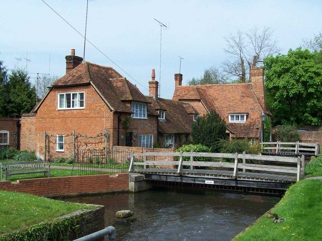 The River Pang in Bradfield, Berkshire, England. For more information see the Wikipedia article Bradfield, Berkshire.